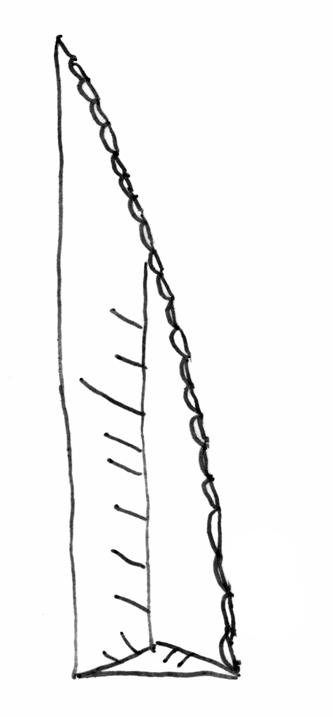 A drawing of a point from the paleolithic Federmesser culture